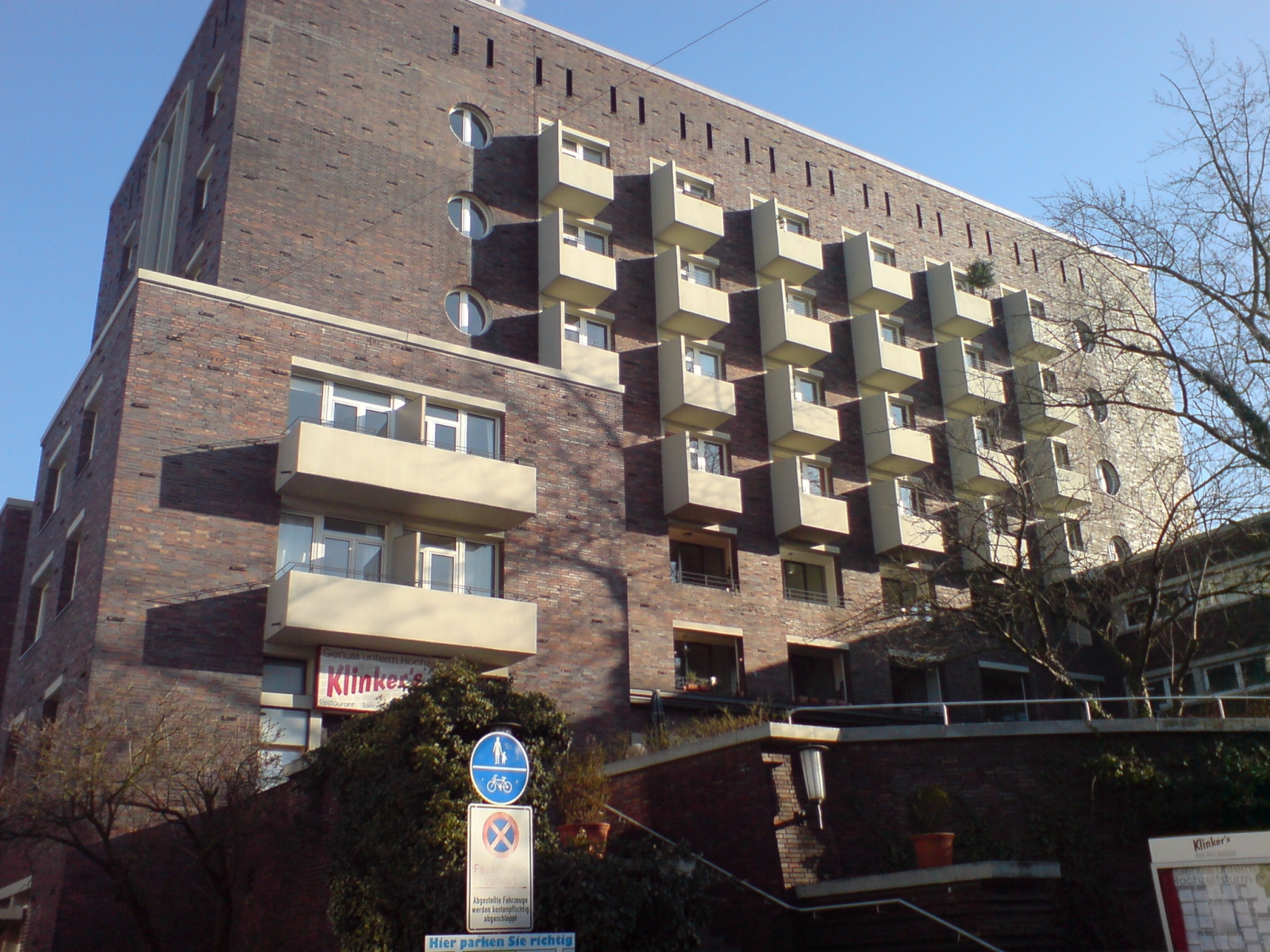 The Ernst-Neufert-Haus in Darmstadt, Germany. Looking eastwards.